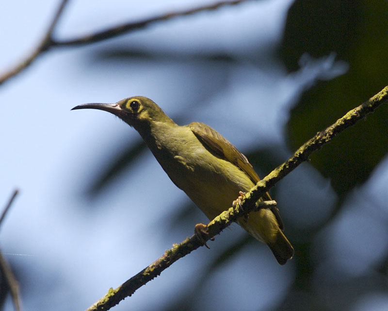 Spectacled Spiderhunter (Arachnothera flavigaster) Panti Forest, Johor, Malaysia